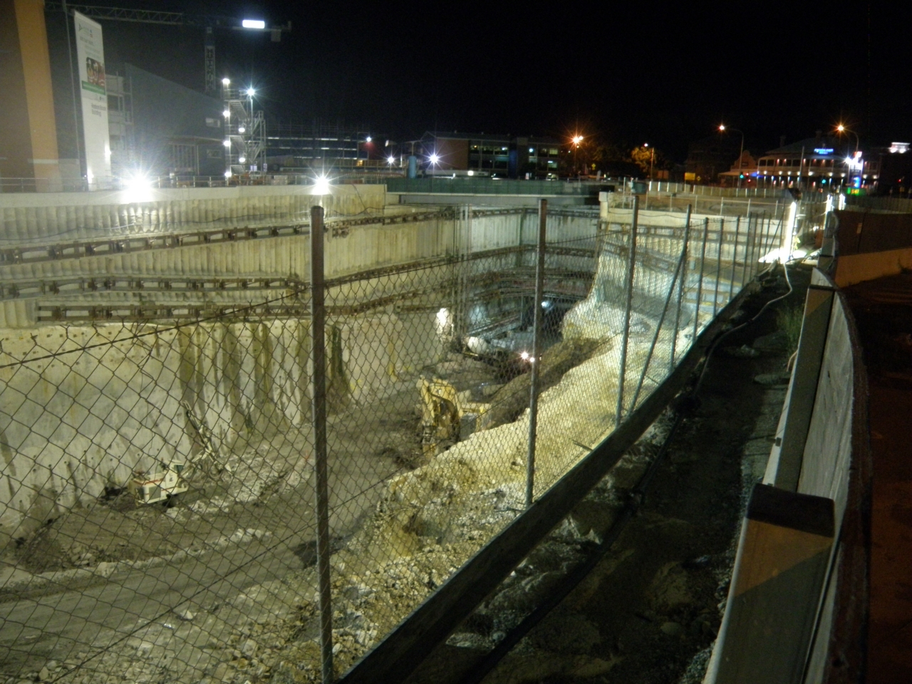 Tunnelling works for the Airport Link project, taking place at the Kedron Central site during the night